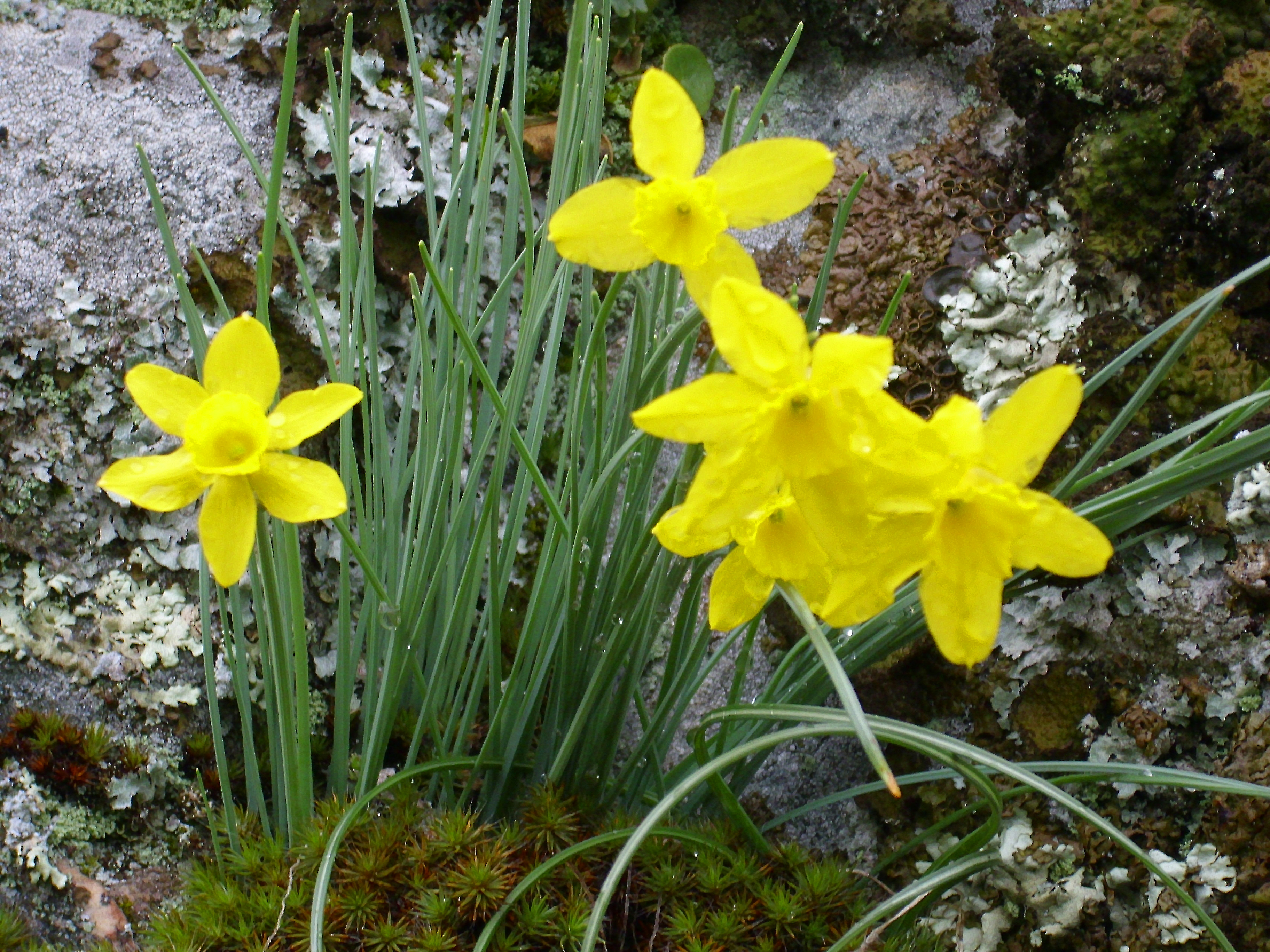 Narcissus rupicola habitat, Sierra Madrona, Spain